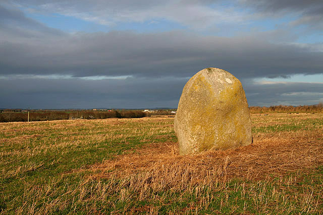 The Lochmaben Stone In stubble field at the edge of the square and the only remaining stone above ground of a former stone circle.